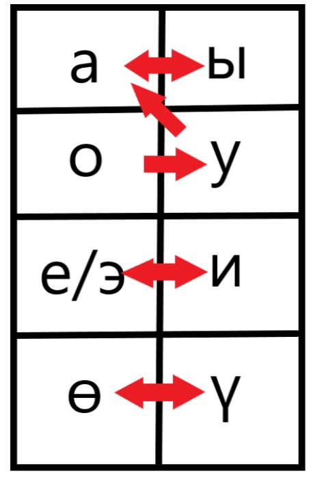 This chart demonstrates how vowels shift left or right in order to abide by Kyrgyz grammar rules.